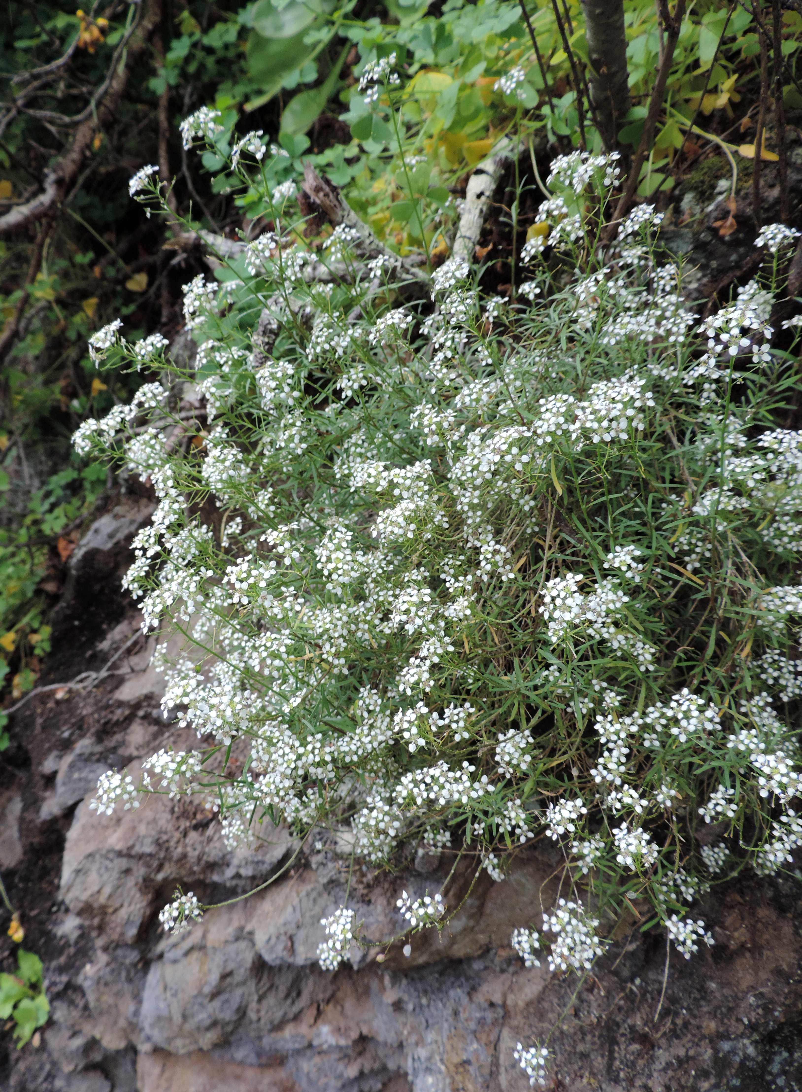 Lobularia canariensis in Los Tilos de Moya, Gran Canaria